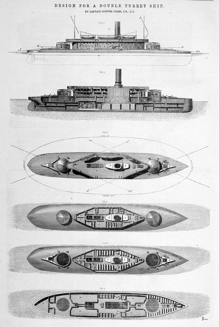 Double Turret Ship Design by Cowper Phipps Coles.